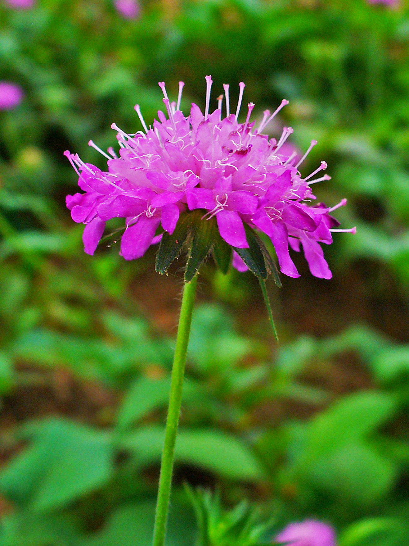 Knautia drymeia, Dipsacaceae, Hungarian Widow Flower, inflorescence; Botanical Garden KIT, Karlsruhe, Germany.